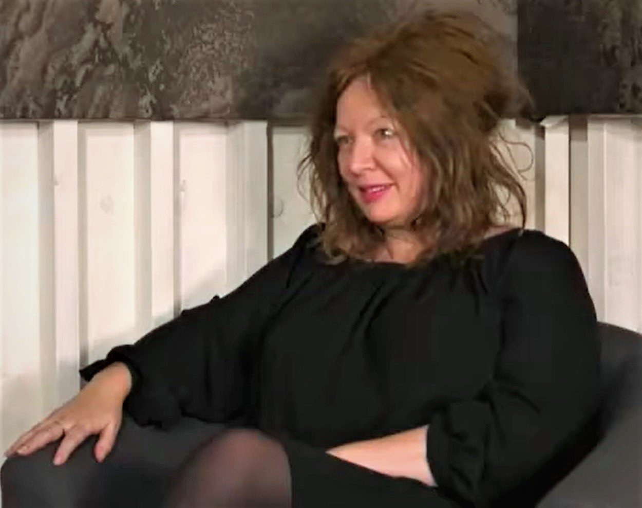 Interview with Suzanne Moore Suzanne Moore joined us on The Fix to discuss the sexual harassment scandals in Parliament.